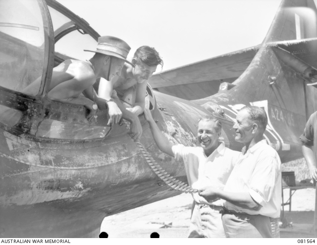 AWM caption : DARWIN, NORTHERN TERRITORY, AUSTRALIA. 1944-10-16. LEADING AIRCRAFTMAN K.N. BARTRAM (1), AND SERGEANT S.B. SHERRY, MEMBERS OF NO. 20 SQUADRON, RAAF, (EAST ARM, DARWIN AREA), AT THE WAIST GUN TURRET OF A CATALINA FLYING BOAT, EXPLAINING THE ORDER IN WHICH BULLETS ARE PLACED IN THE MACHINE GUN BELT TO VISITING MEMBERS OF THE PARLIAMENTARY WAR EXPENDITURE COMMITTEE. IDENTIFIED PERSONNEL ARE:- THE HONOURABLE H.E. HOLT, MP, (FAWKNER), DEPUTY CHAIRMAN OF COMMITTEE (3); THE HONOURABLE H.V. JOHNSON, MP, (4).